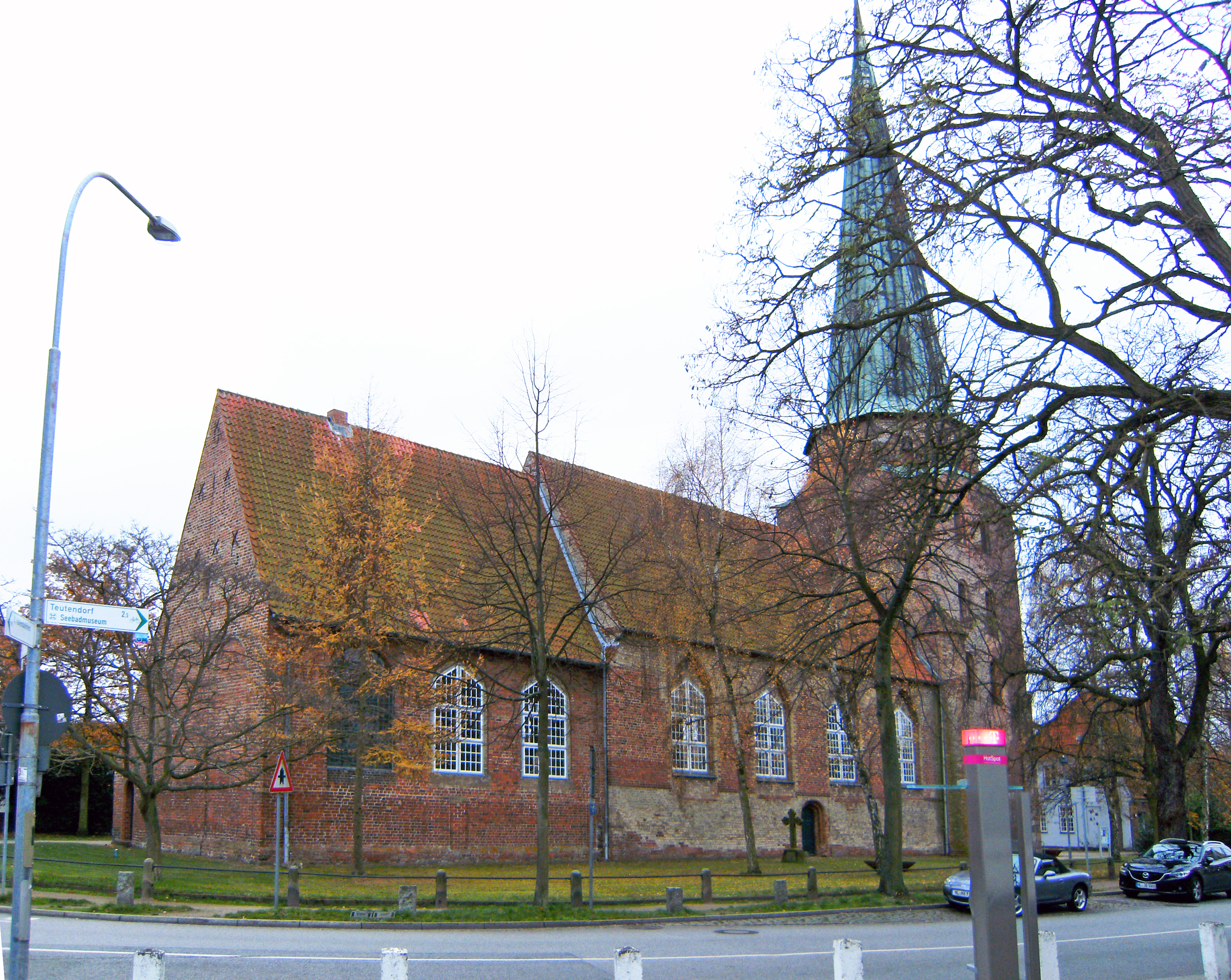 St. Lorenz church in Travemünde, Germany, seen from North.